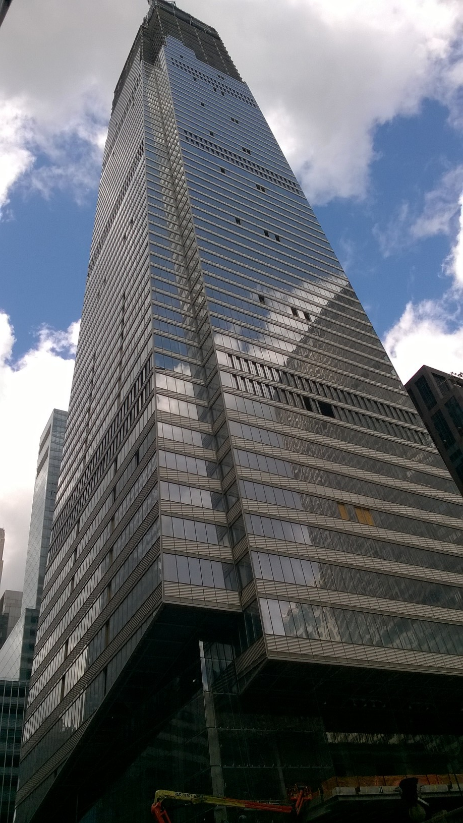 One Vanderbilt under construction on September 7, 2019 in New York City.